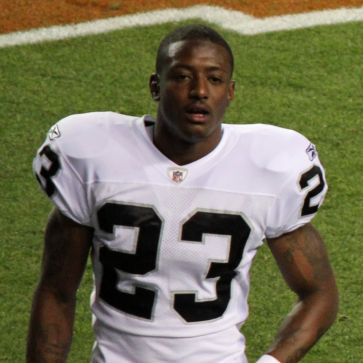 DeMarcus Van Dyke, a player on the National Football League.